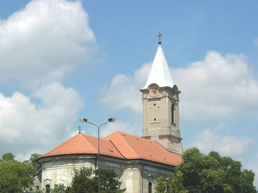 The Holy Trinity Catholic Church in Čoka.